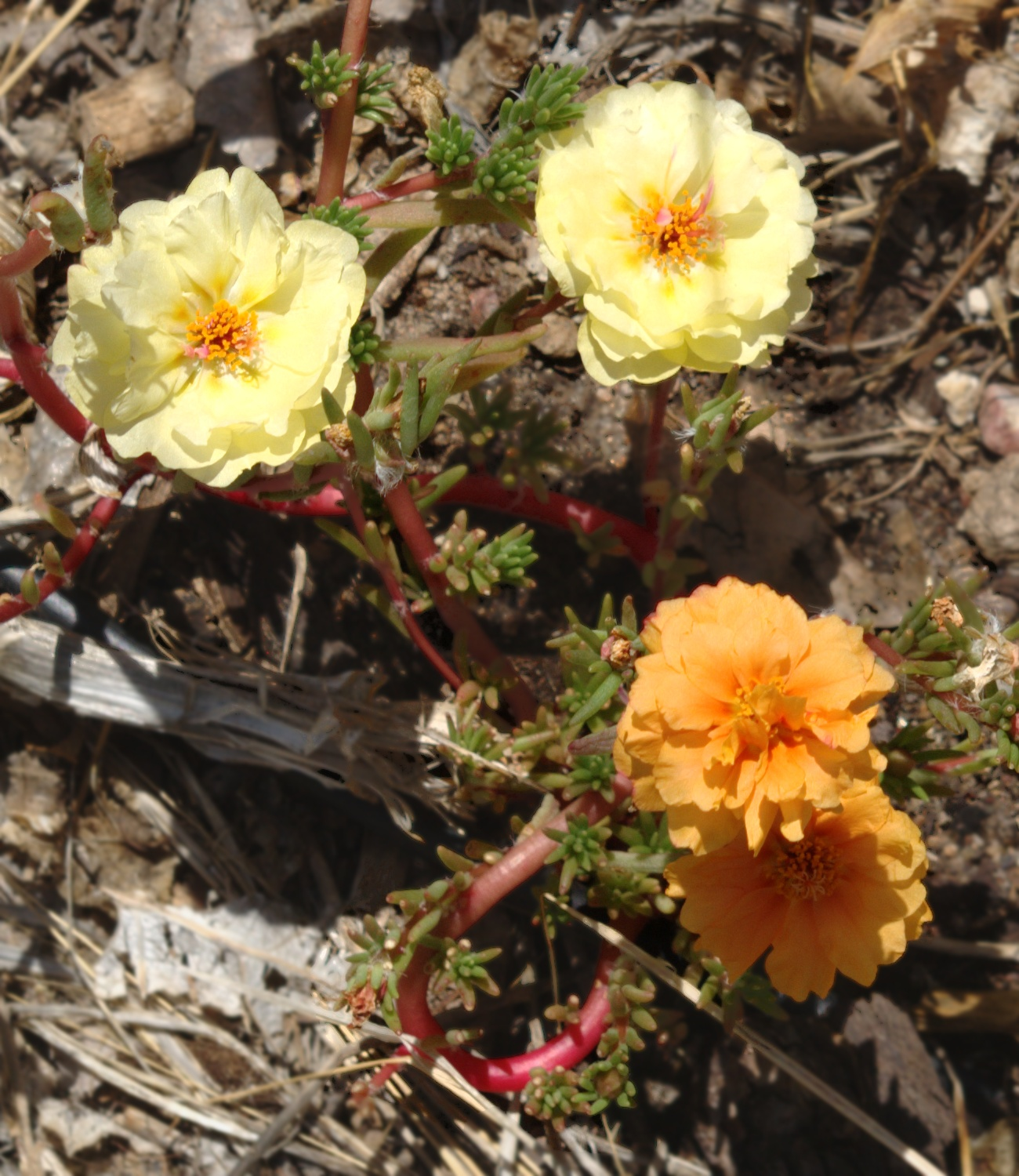 Moss rose or rose moss, Portulaca grandiflora, with flowers of two colors as a result of a mutation. The orange is probably the mutant, as it's closer to the purple wild type.